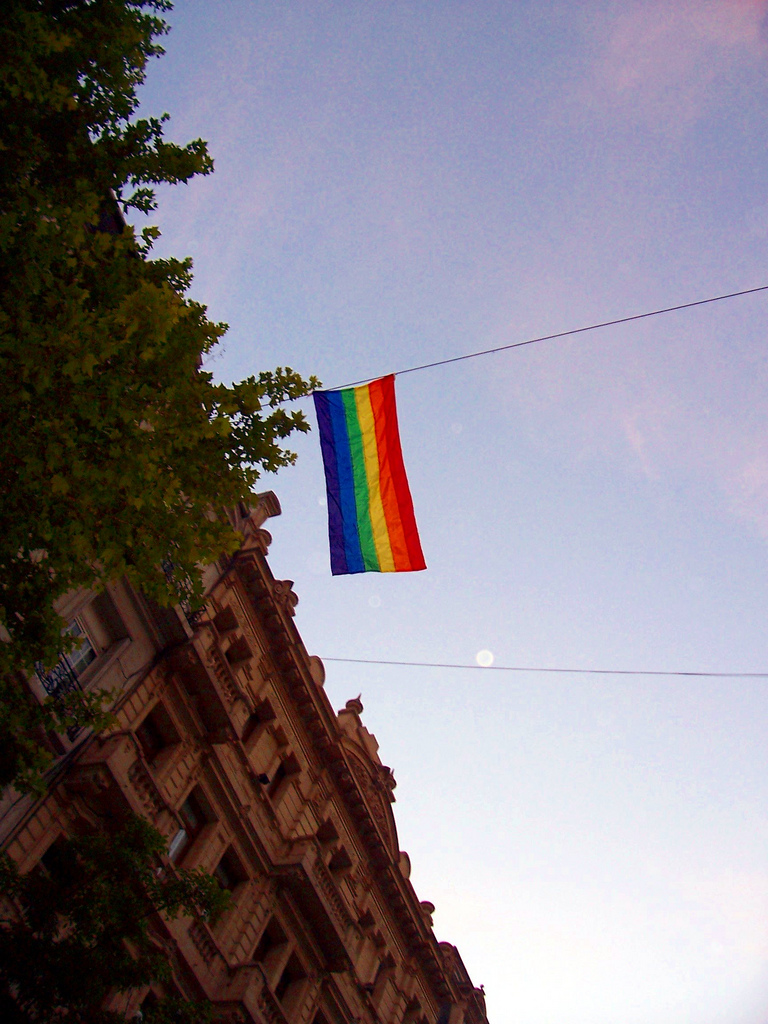 Bandera Gay en la Marcha del Orgullo LGBT 2008 en Buenos Aires.